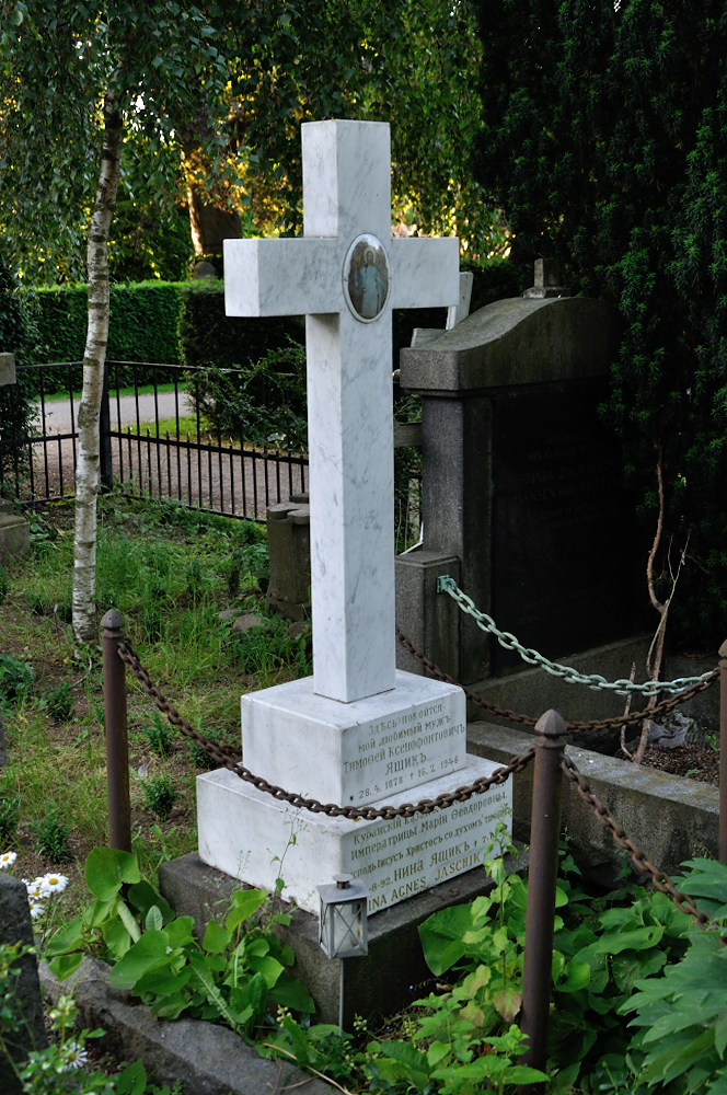 Могила Тимофея Ящика